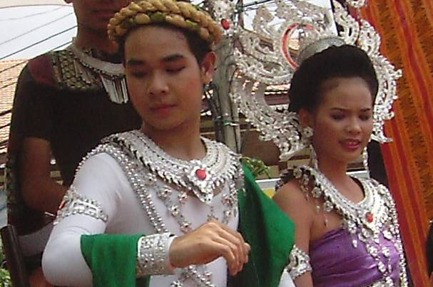 Unidentified couple costumed as Pha-Dang and Nahng Ai in an Isan Rocket Festival Parade